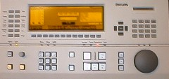 SDC 2000 Control panel B7W